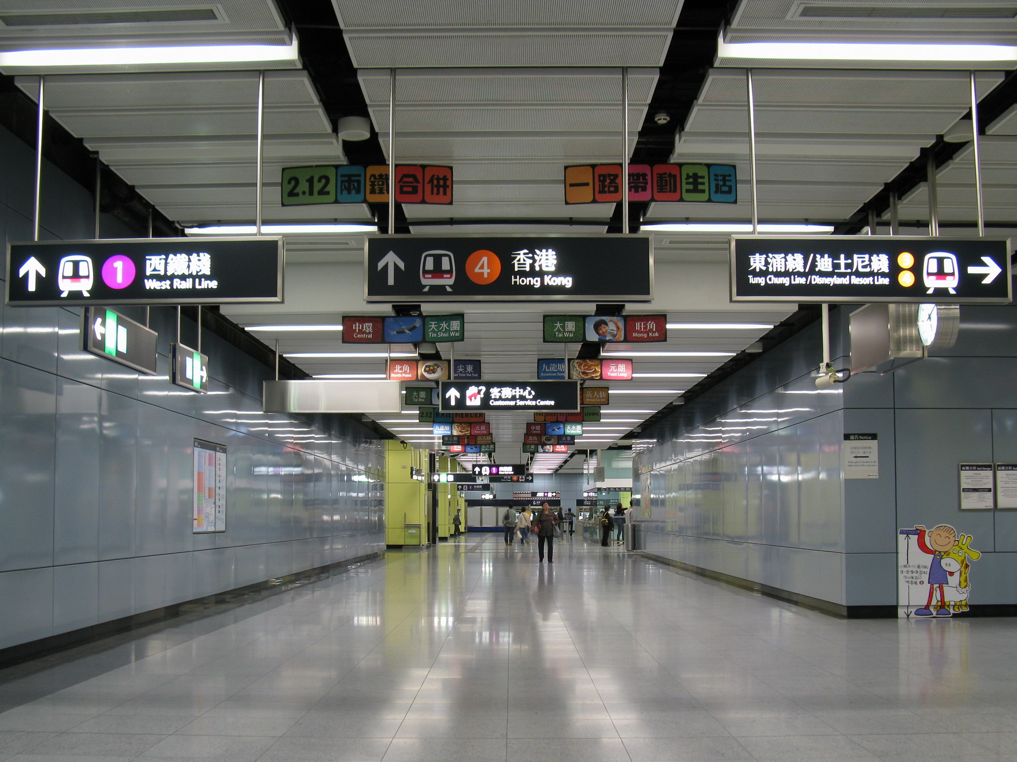 Banners displaying Rail Merger advertisement were seen in MTR stations. Photo was taken at Nam Cheong Station.